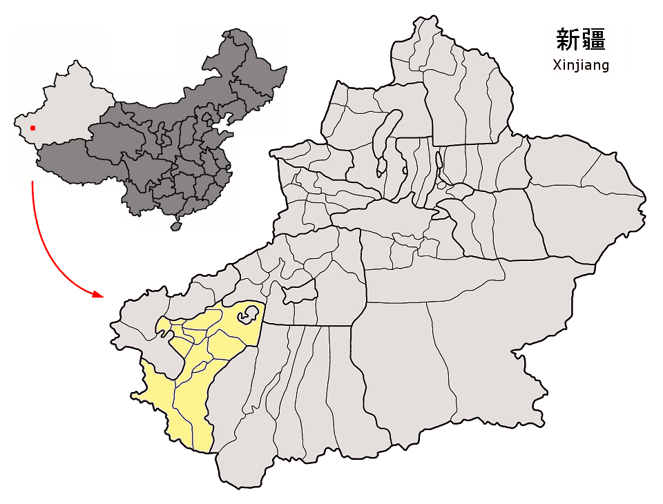 Location of Kashgar Prefecture (yellow) within Xinjiang autonomous region of China Map drawn in september 2007 using various sources, mainly : Xinjiang Uygur autonomous region administrative regions GIS data: 1:1M, County level, 1990 Xinjiang Counties map from